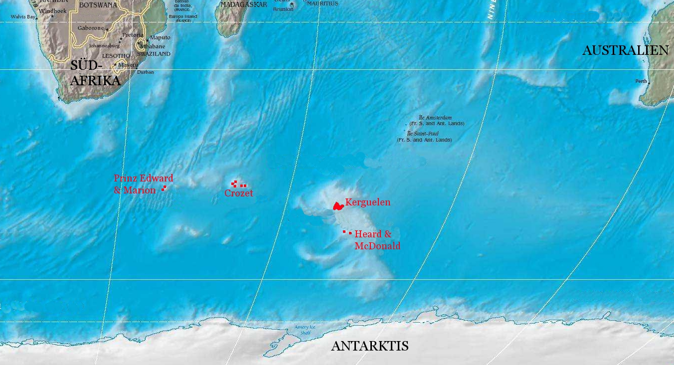 Distribution Pringlea antisorbutica